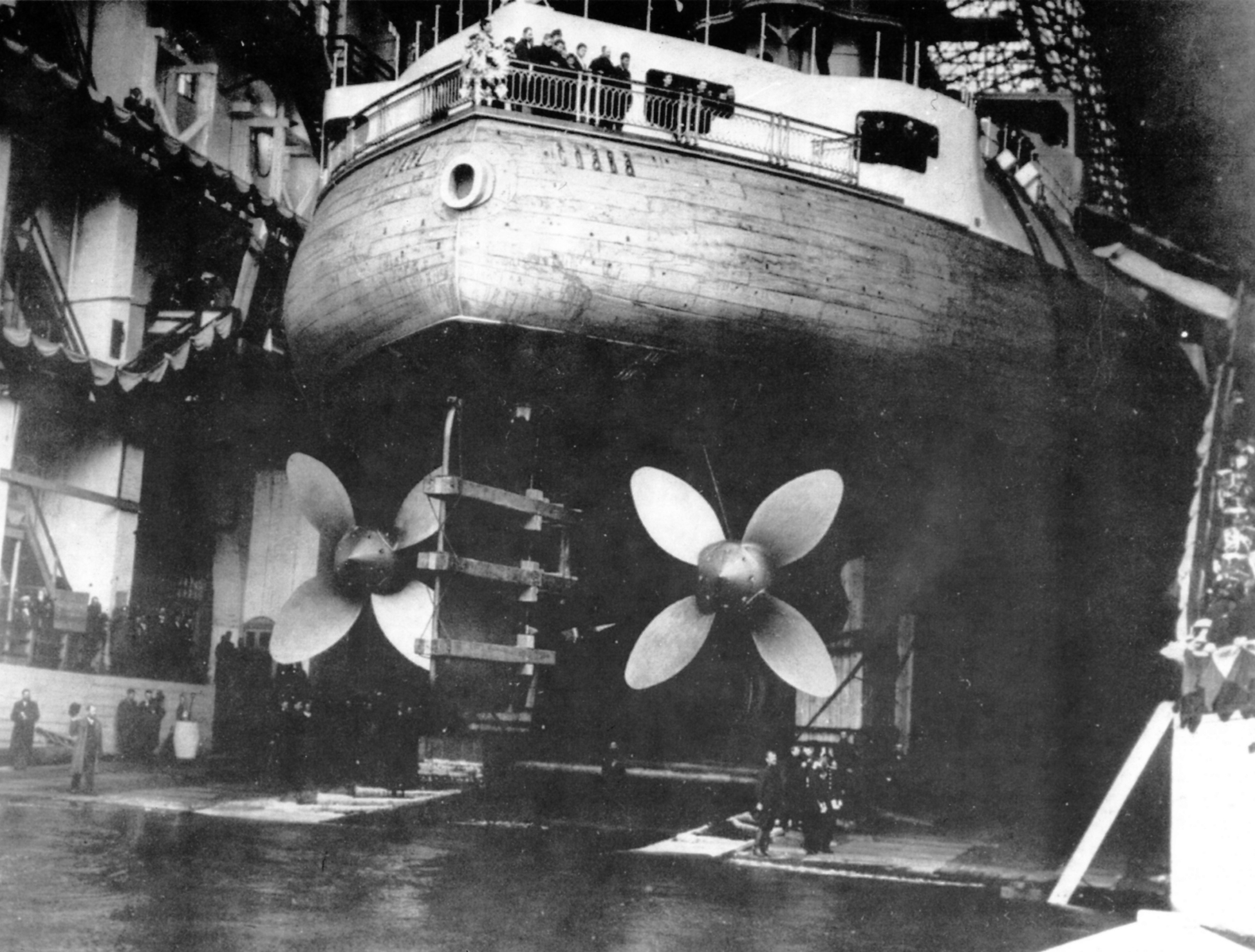 The Imperial Russian battleship «Slava» before launching.